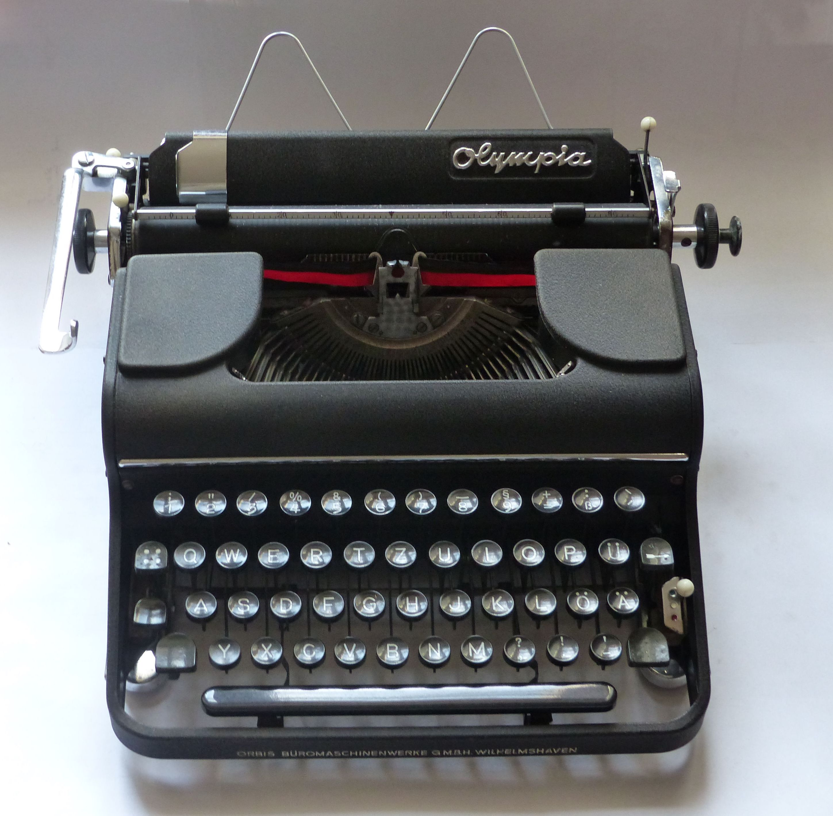 Olympia Orbis typewriter from 1950 with the serial number 39401.